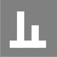 6. Panzer-Division unit marking during Unternehmen "Zitadelle".